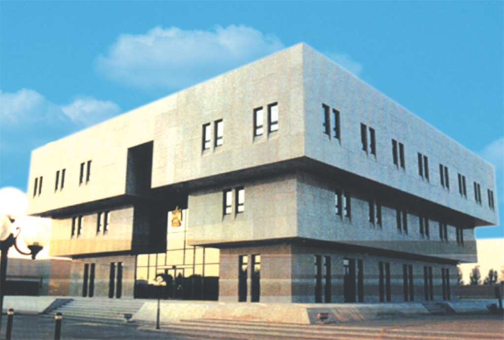 Egyptian Embassy in Abu Dhabi, United Arab Emirates. Located in Old Airport Street, Diplomatic District, Abu Dhabi.